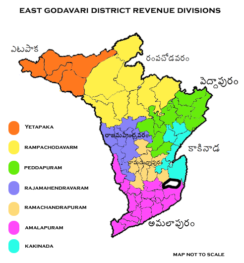 Revenue divisions map of East Godavari district